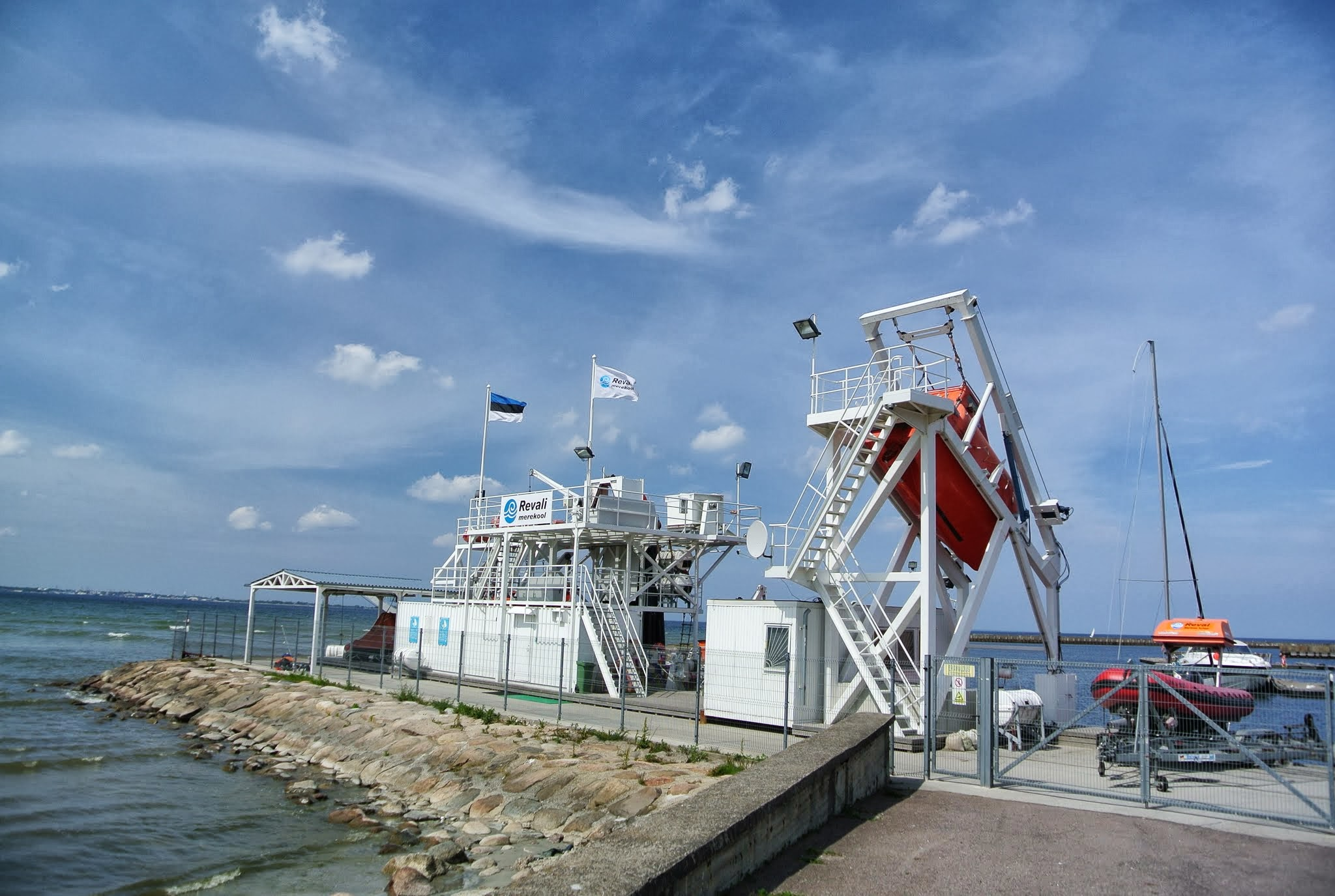 Pirita, Tallinn, Estonia